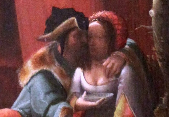 Lot and his daughters, Louvre (detail 1)